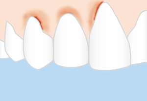 Gingivitis